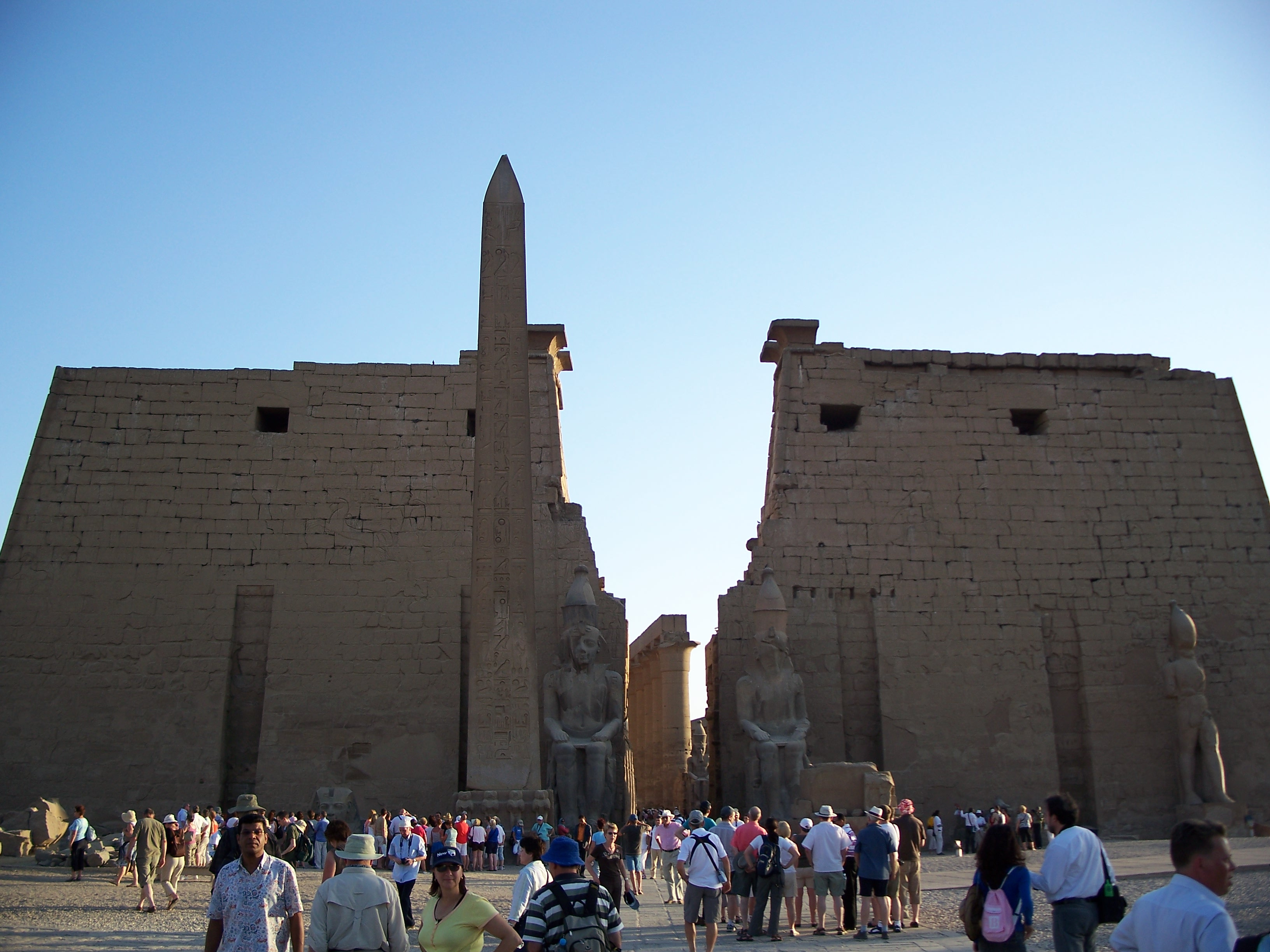 Entrance of Luxor Temple. Taken by myself. May 26, 2007